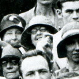 Truro 1930 Arthurian Society - International Arthurian Congress, Truro, August 1930 Professor C. B. Lewis attended the Congress, and made the list of participants inc. Dominica Legge